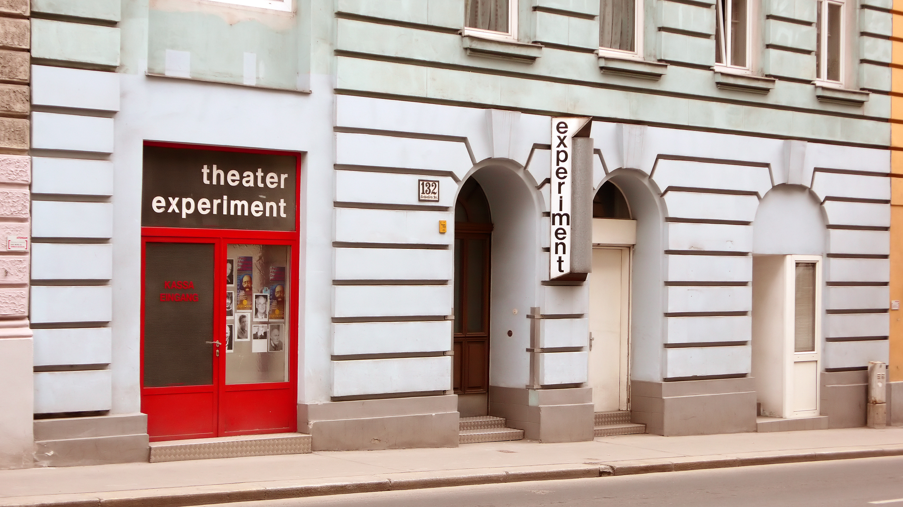 Theatre Experiment am Liechtenwerd in Vienna Alsergrund